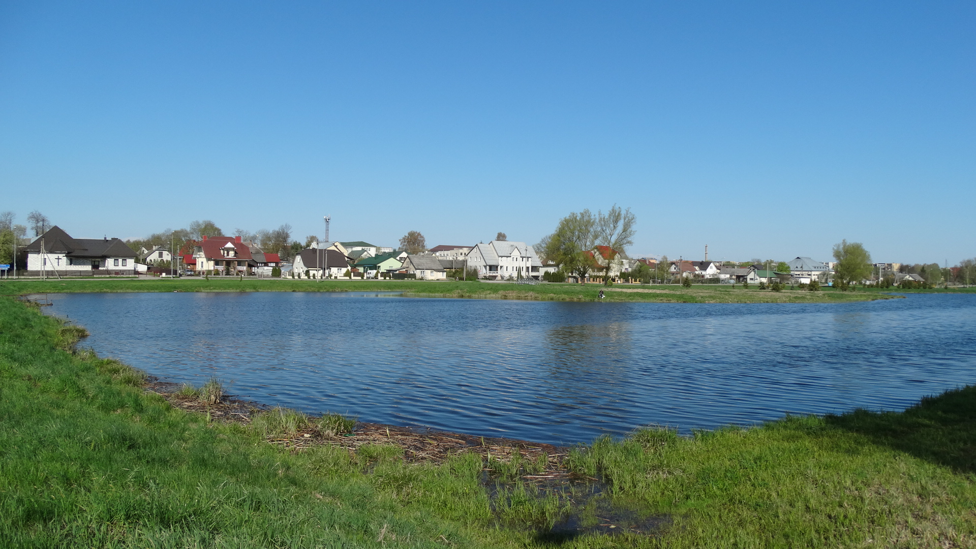 Pond, Šalčininkai, Lithuania